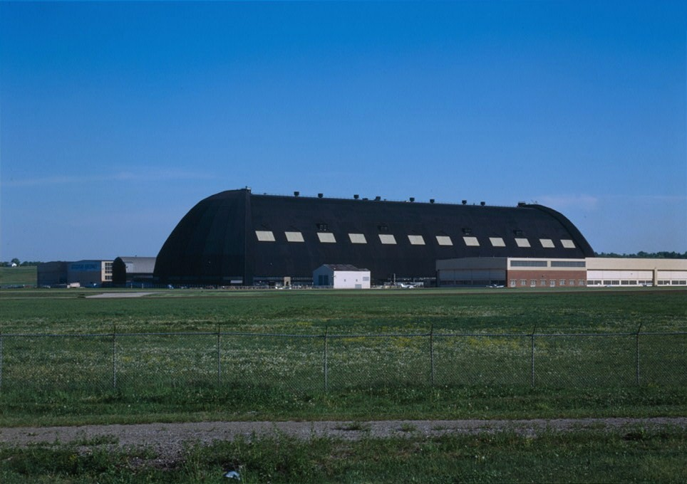 Exterior view of the Goodyear Airdock.